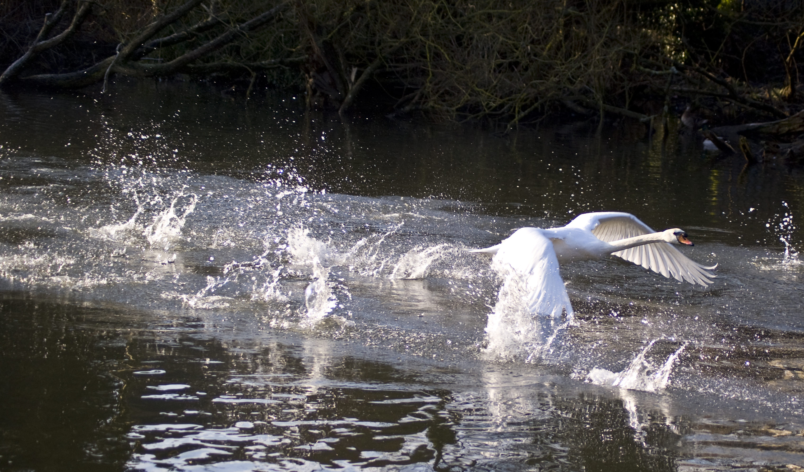 Mute swan taking off on the Kennet and Avon Canal near Newbury, Berkshire